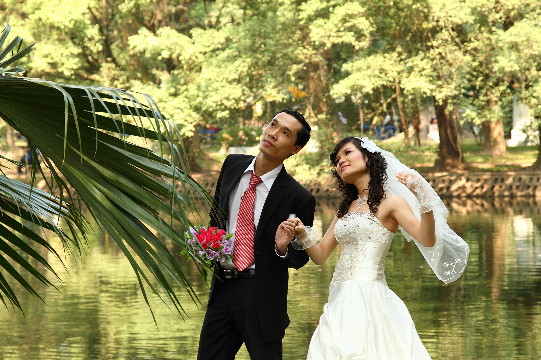 In the botanical garden in Hanoi we saw a lot of happy couples. Seems like wedding photos are very important for Vietnamese people. The couple was standing absolutely still in this pose for 2 minutes :-)